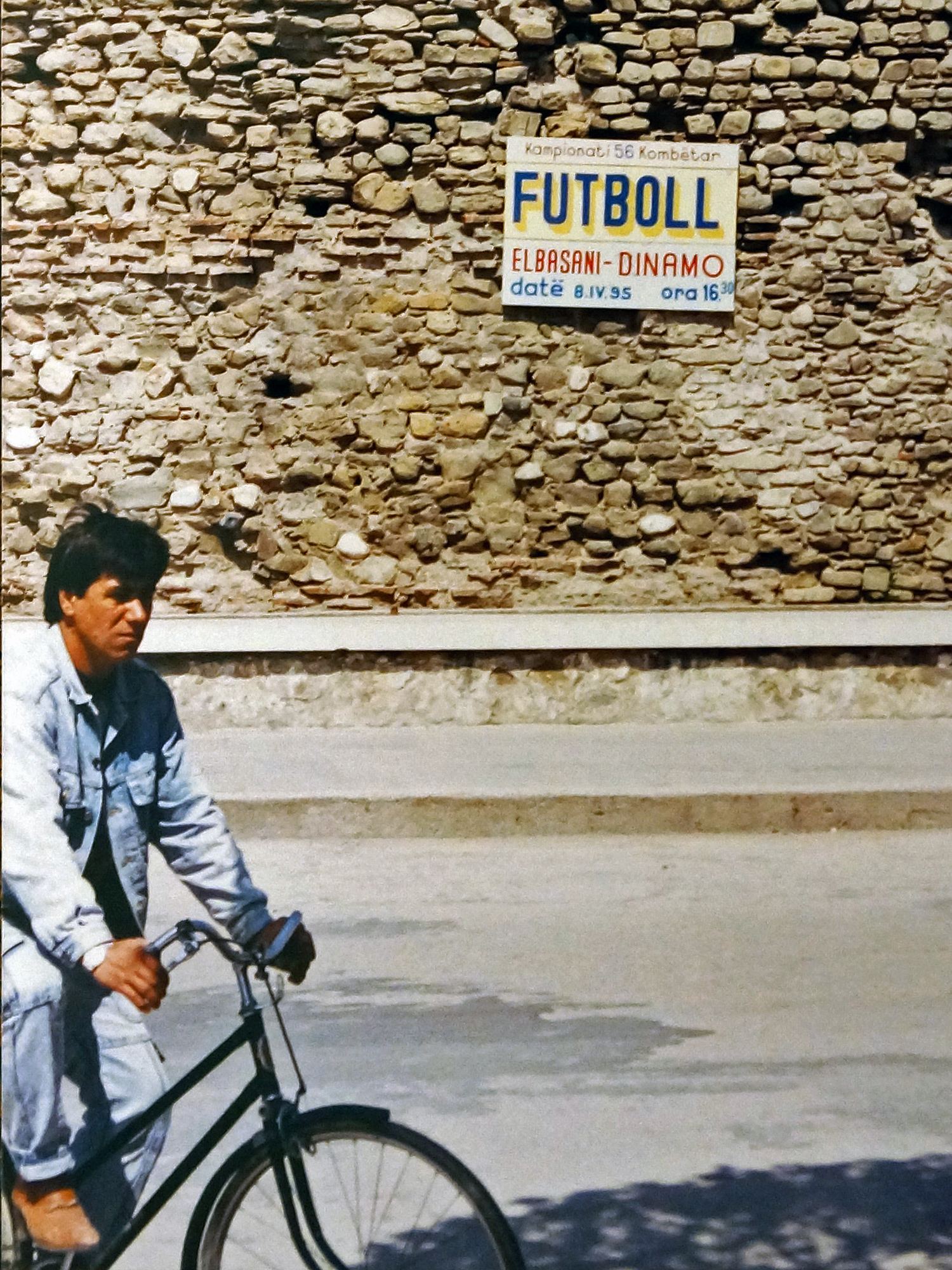 Advertisement for a soccer game in Elbasan, Albania – KF Elbasani against Dinamo Tirana, April 8, 1995